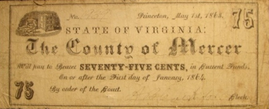 Mercer County, Virginia, 75-cent note, issued on May 1, 1863, in the town of Princeton.